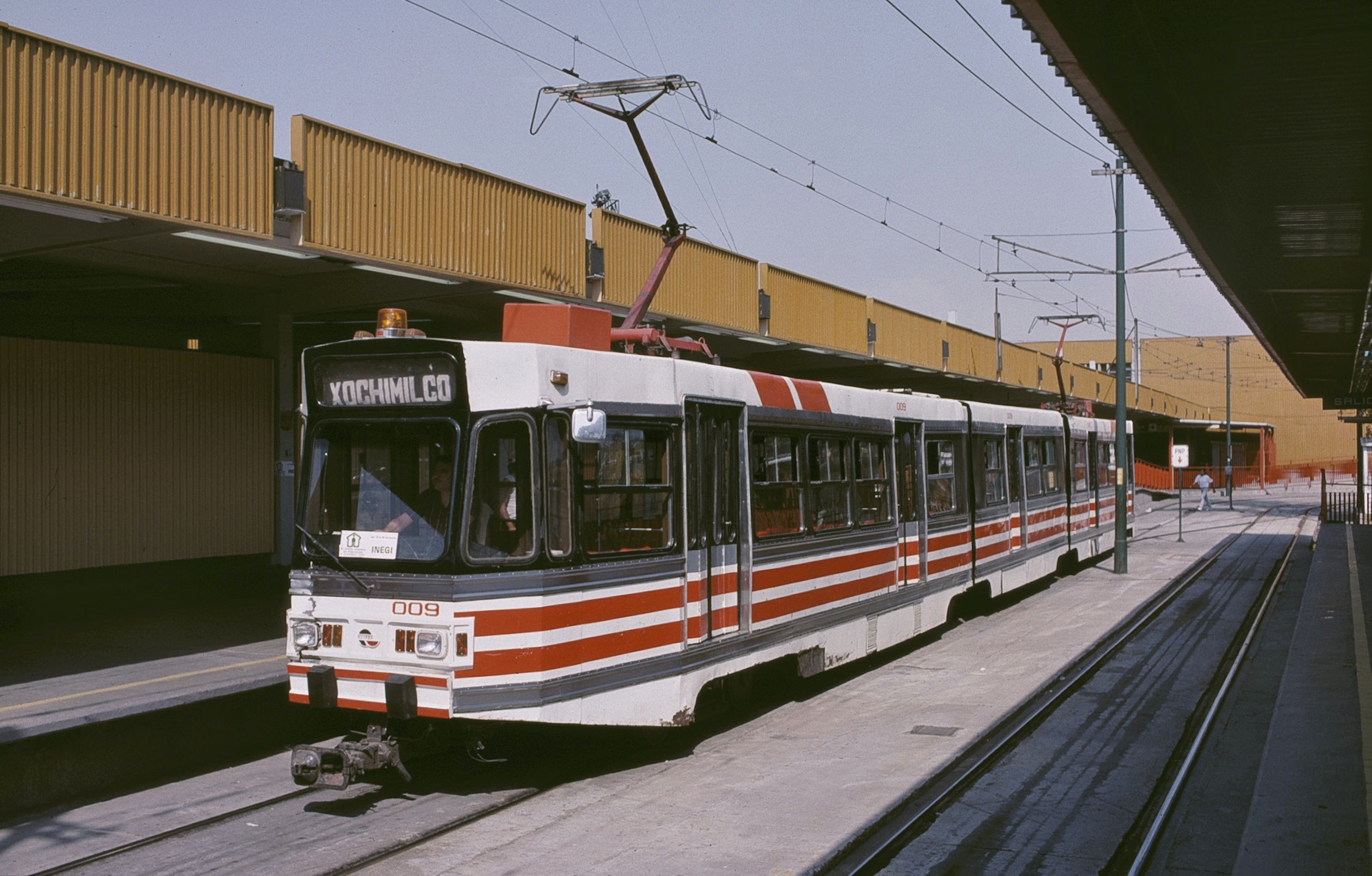 Moyada-built light rail car 009 of STE at the Tasqueña terminal of the Xochimilco light rail line, in Mexico City, in 1990.